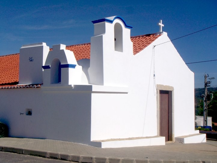 Church in Santa Cruz